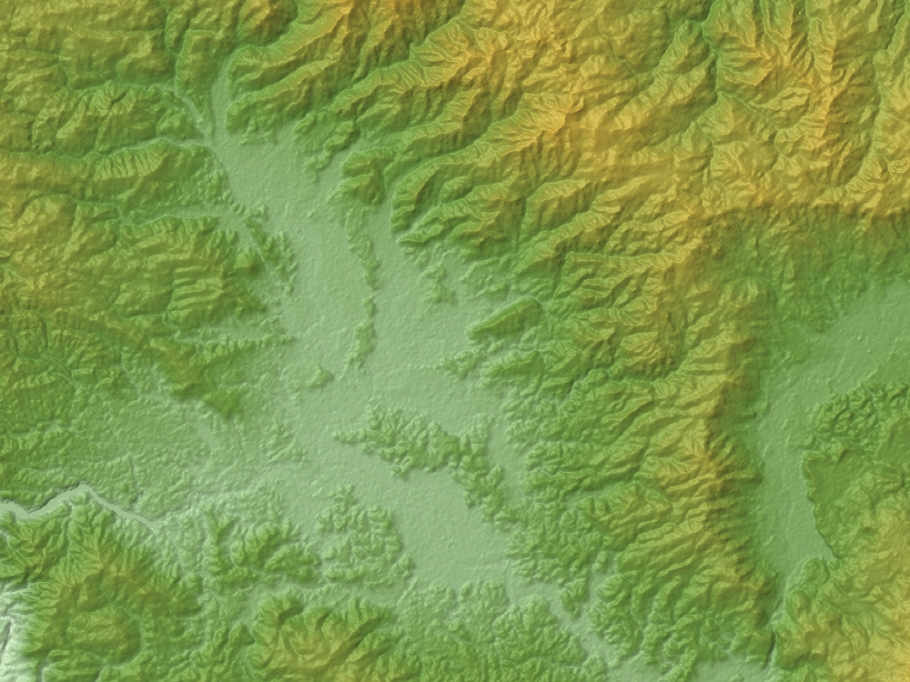 Ōkuchi Basin in Kagoshima Prefecture, Kyushu, Japan.